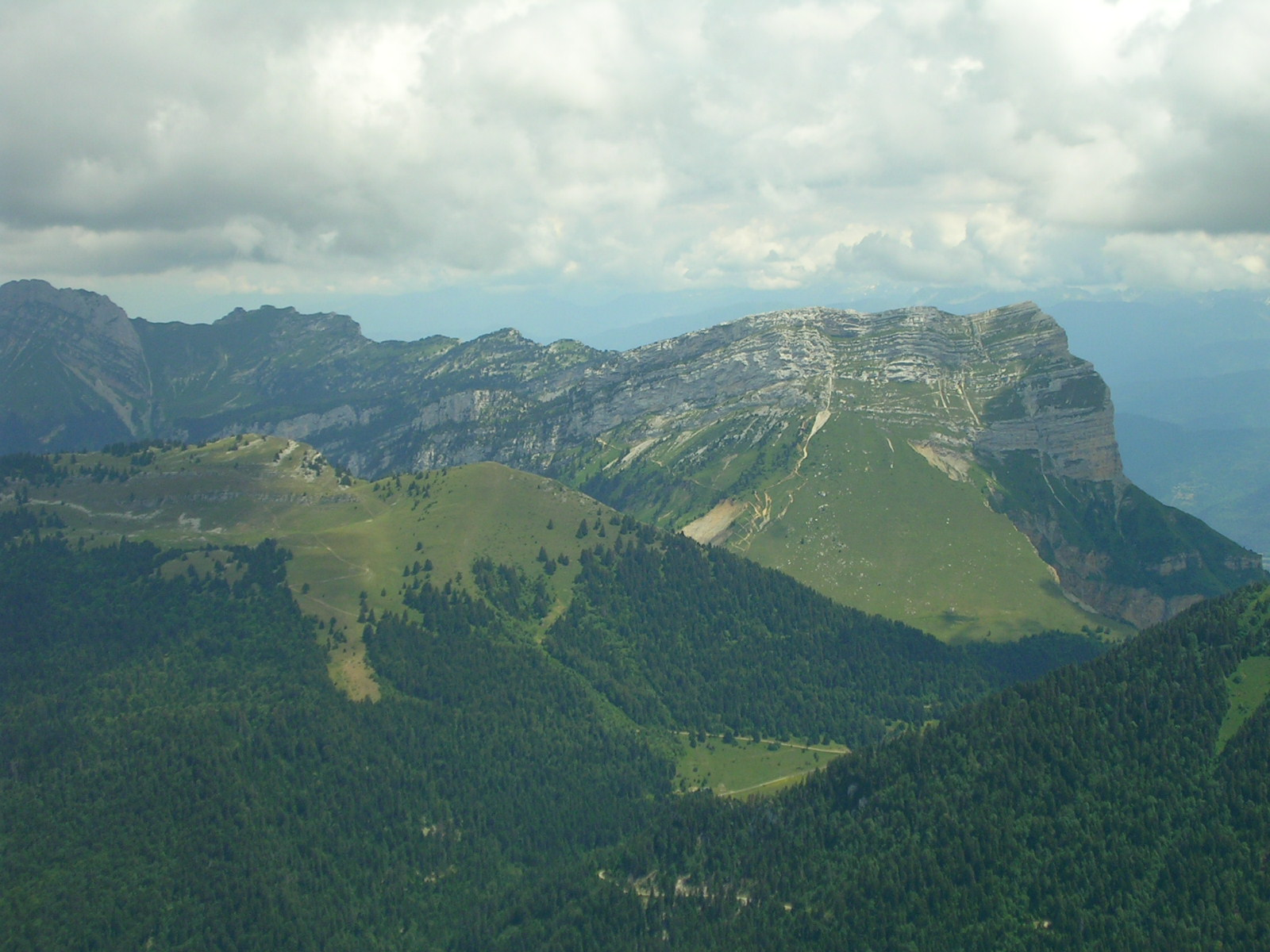 my own photograph